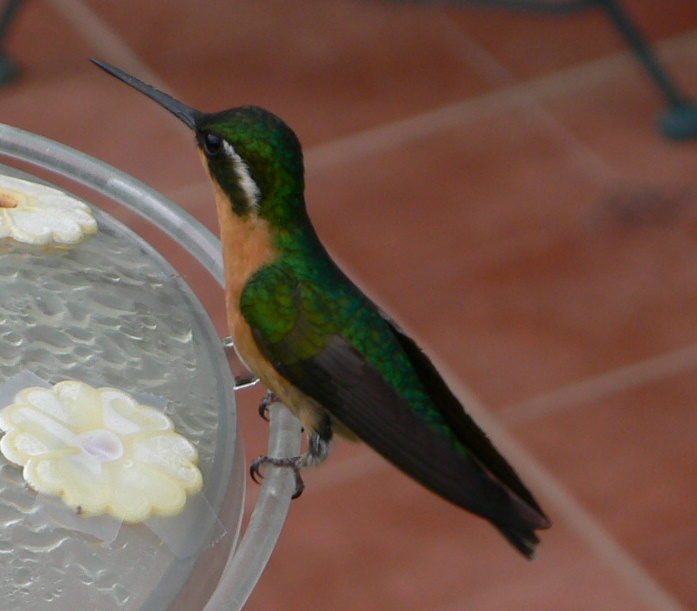 Gray-tailed Mountain-gem (Lampornis cinereicauda), Savegre, Costa Rica